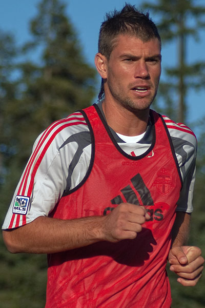 headshot of soccer player, Jarrod Smith